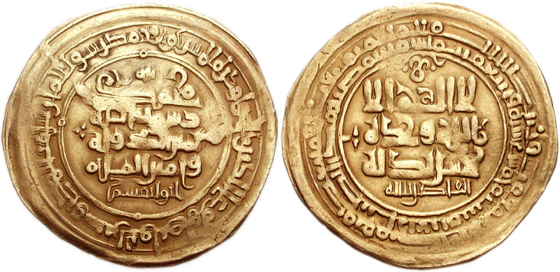 Coin of the Ghaznavid Sultan Mahmud minted in Ghazni.